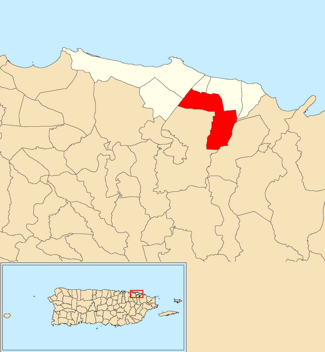 Canóvanas, Loíza, Puerto Rico locator map